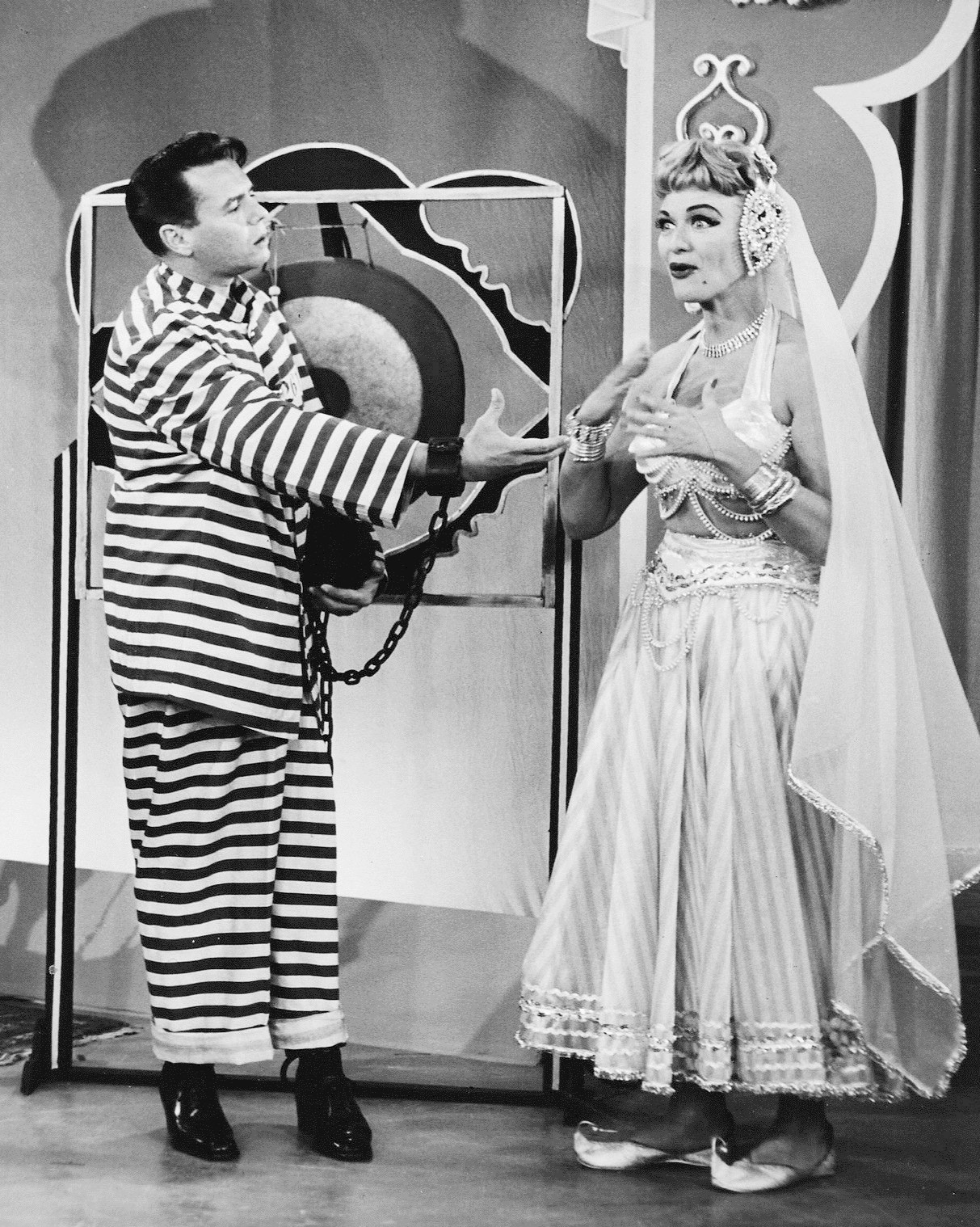 Photo of Desi Arnaz and Eve Arden from the television comedy Our Miss Brooks. Connie (Arden) has a dream about a harem and guest star Desi is there. However, Desi seems to be confused, as he believes Connie is Lucy.